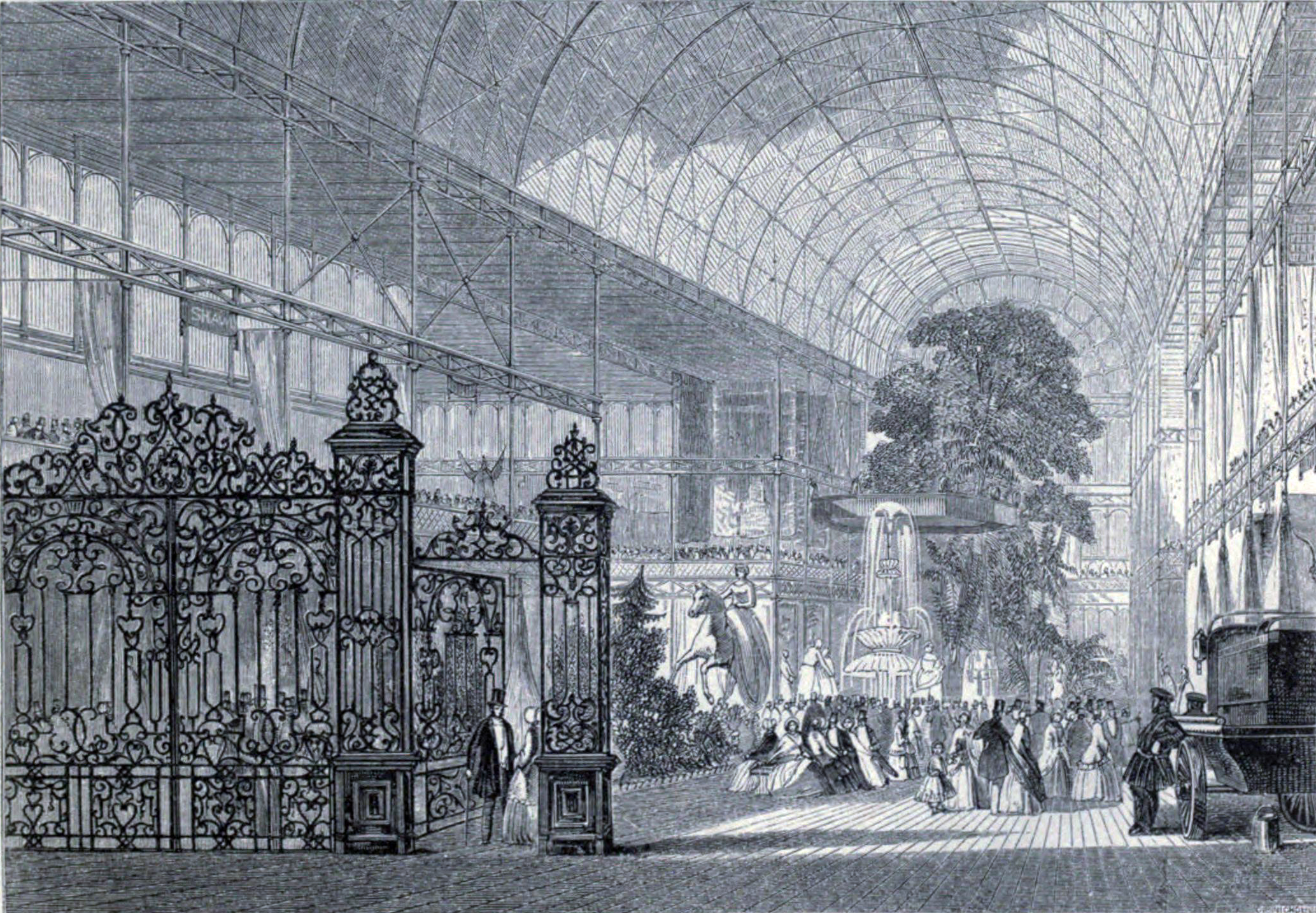 "The Crystal Palace" Great Exhibition of the Industry of All Nations, 1851: Illustrated Catalogue (London: Bradbury and Evans, 1851, p. xvii) Engraving 1851